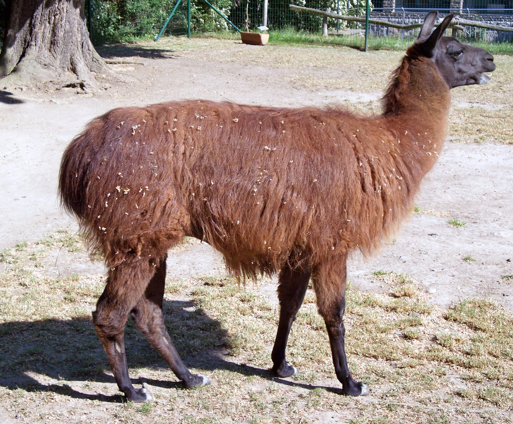 Llama Horst